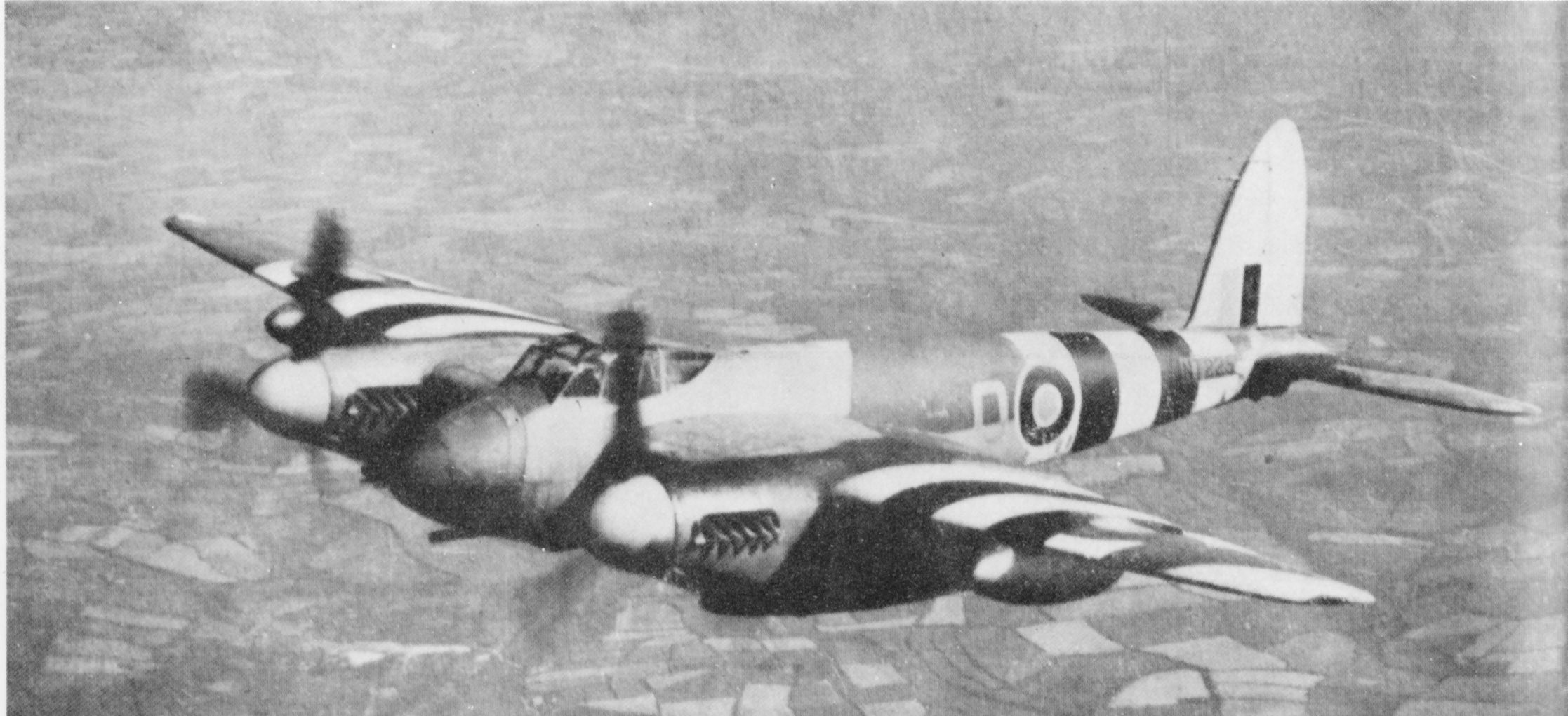 de Havilland Mosquito XVIII